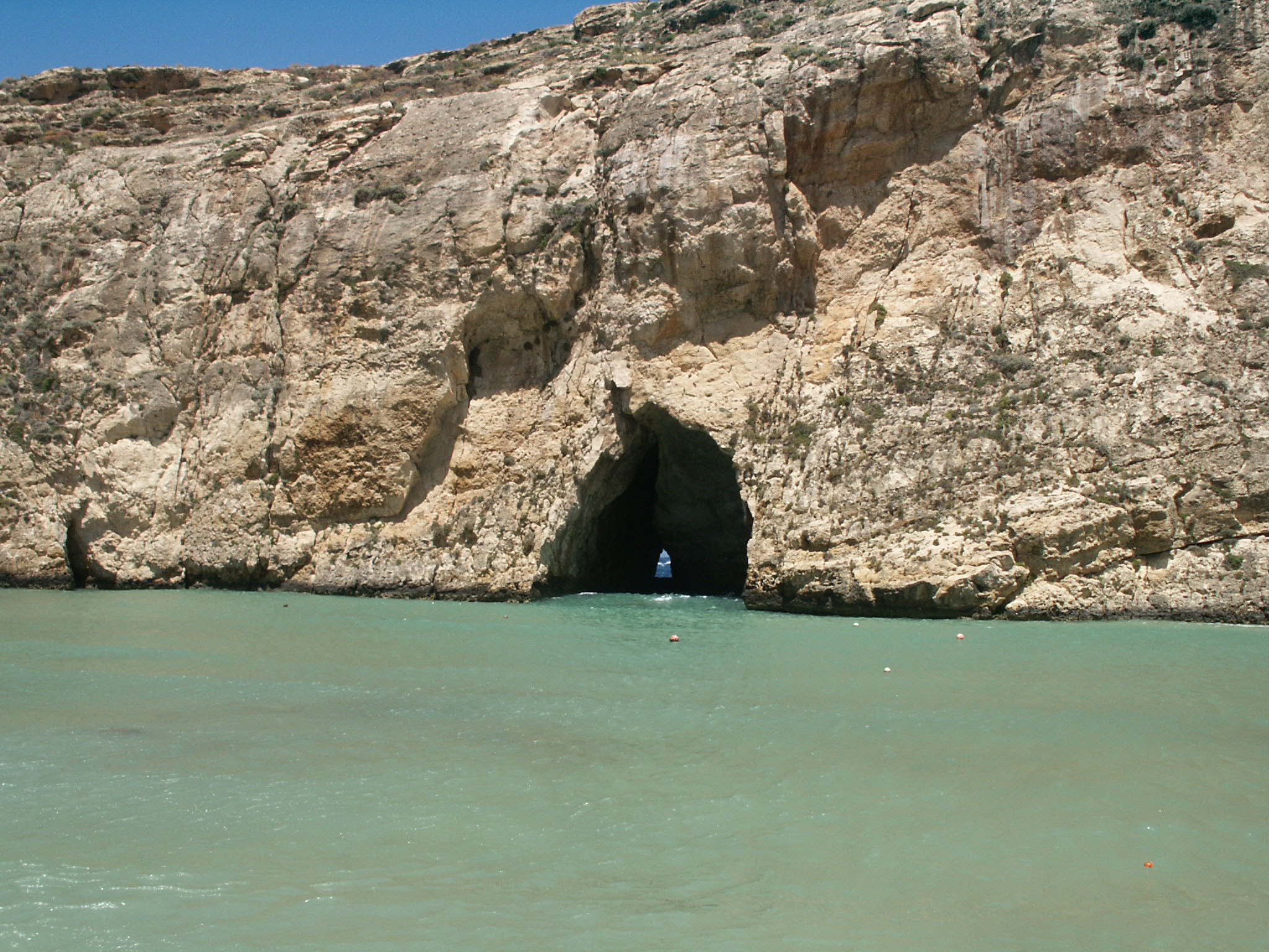 inland sea gozo